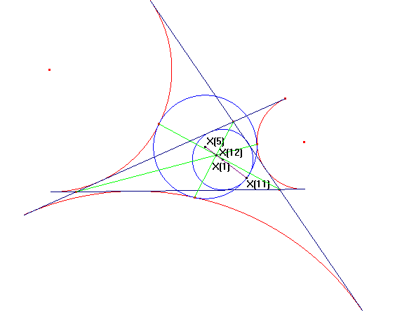 X(12) as perspector of the Feuerbach triangle and ABC, and as harmonic conjugate of the Feuerbach point X(11) with respect to X(1) and X(5)